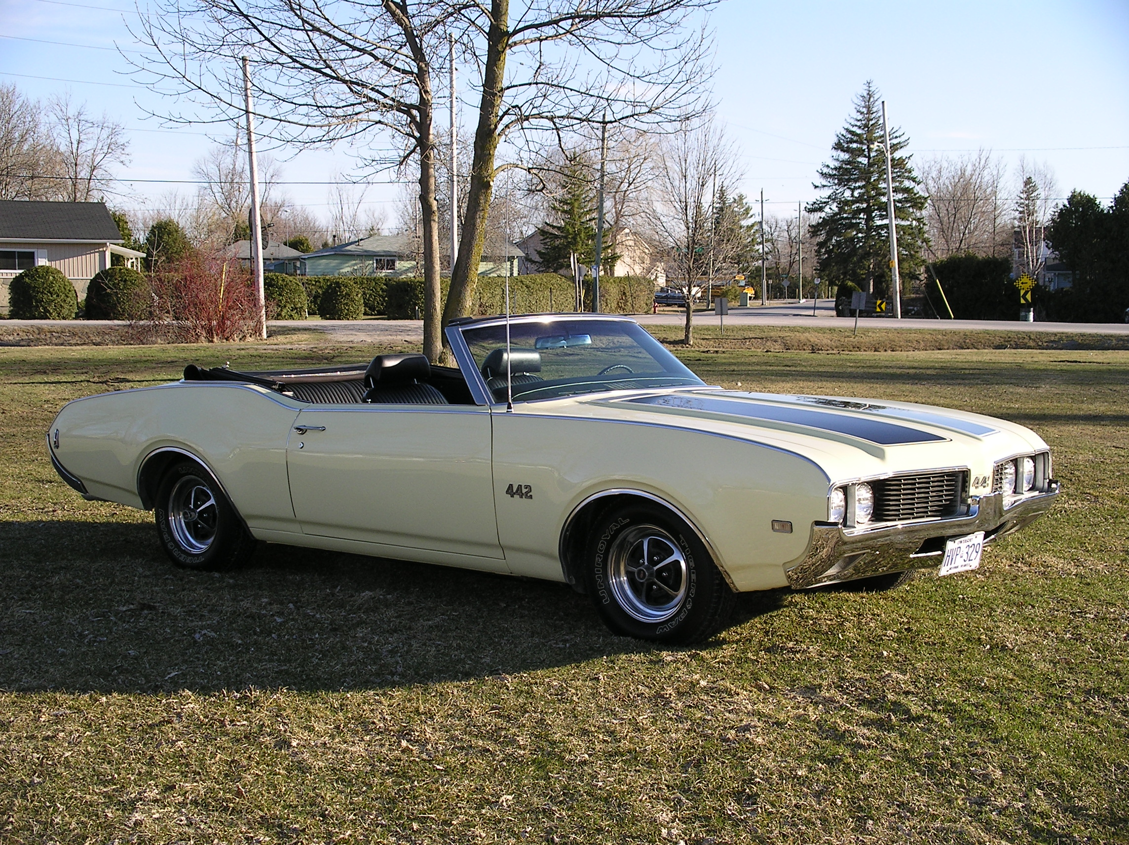 Vic Brincat's 1969 Oldsmobile 4-4-2 convertibleVic Brincat's 1969 Olds 4-4-2 Convertible